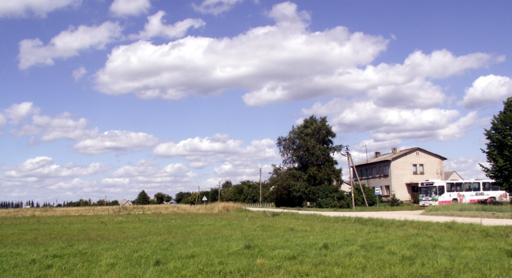 Pikeliškė, Šiauliai district, Lithuania